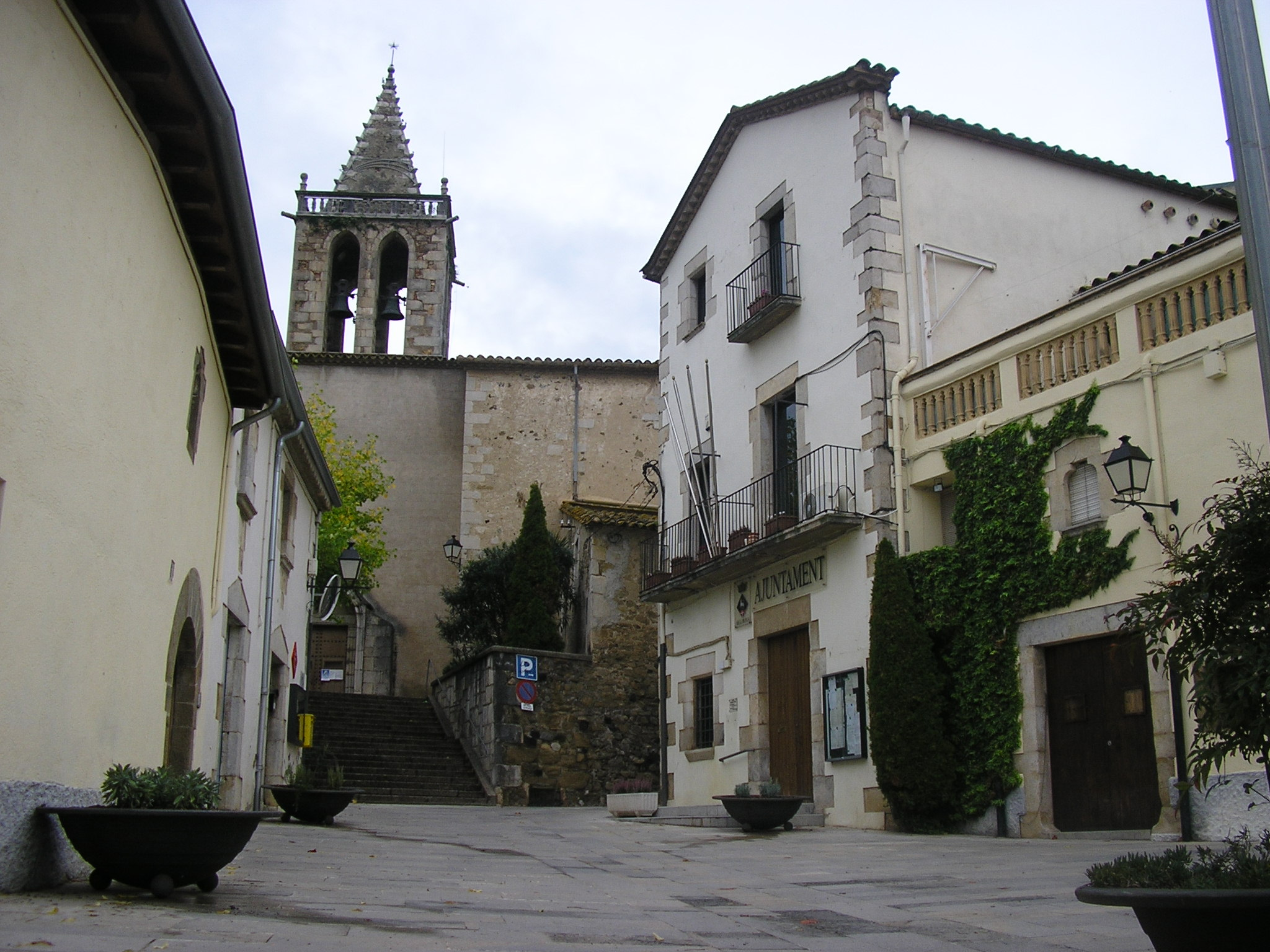 Aiguaviva's main Square